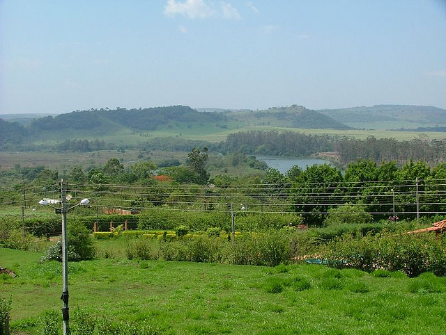 Paranapanema River and Rural area in Ourinhos, São Paulo, Brazil.